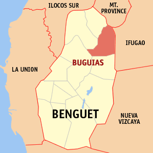 Map of Benguet showing the location of Buguias